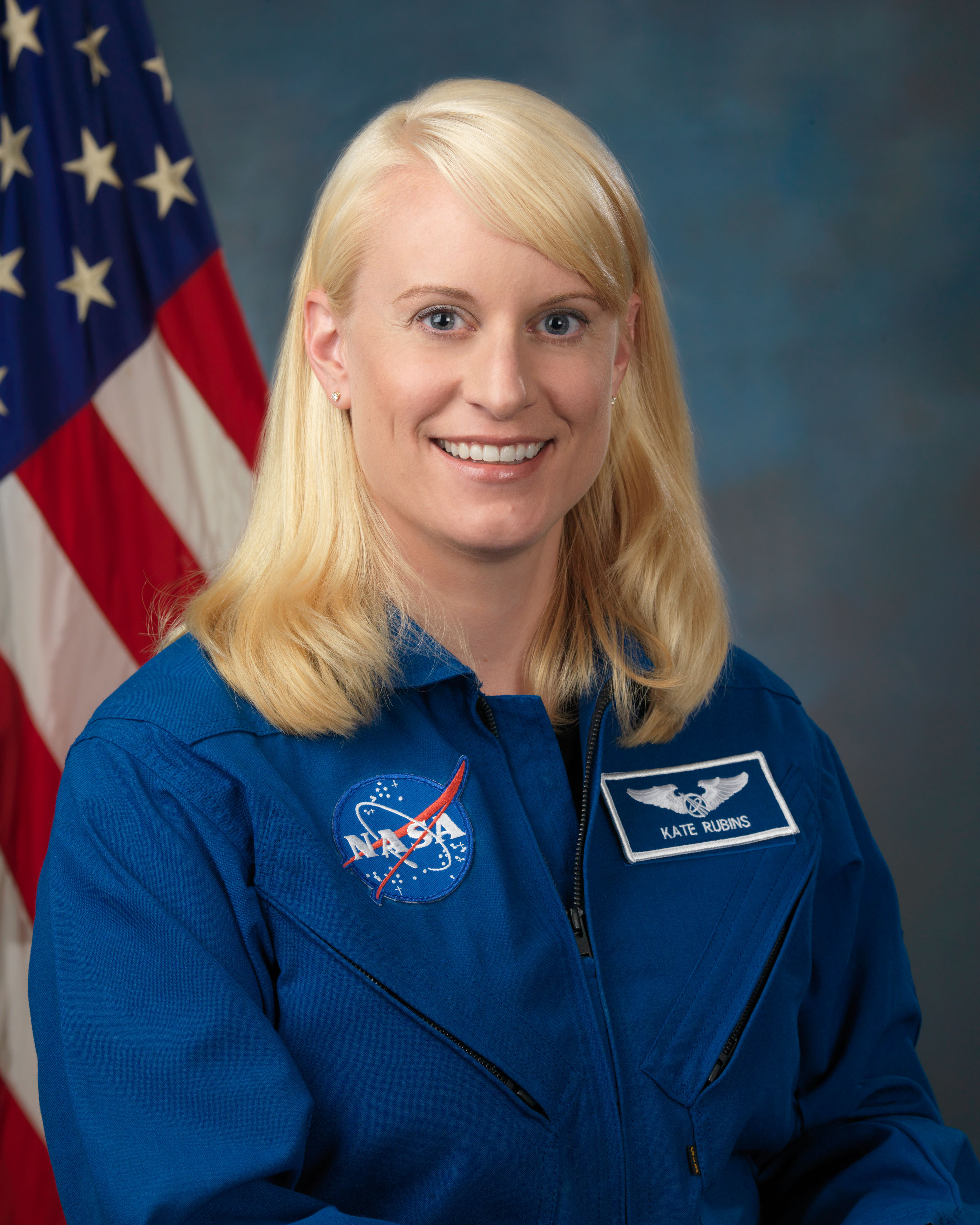 Kathleen (Kate) Rubins, NASA astronaut candidate class of 2009.